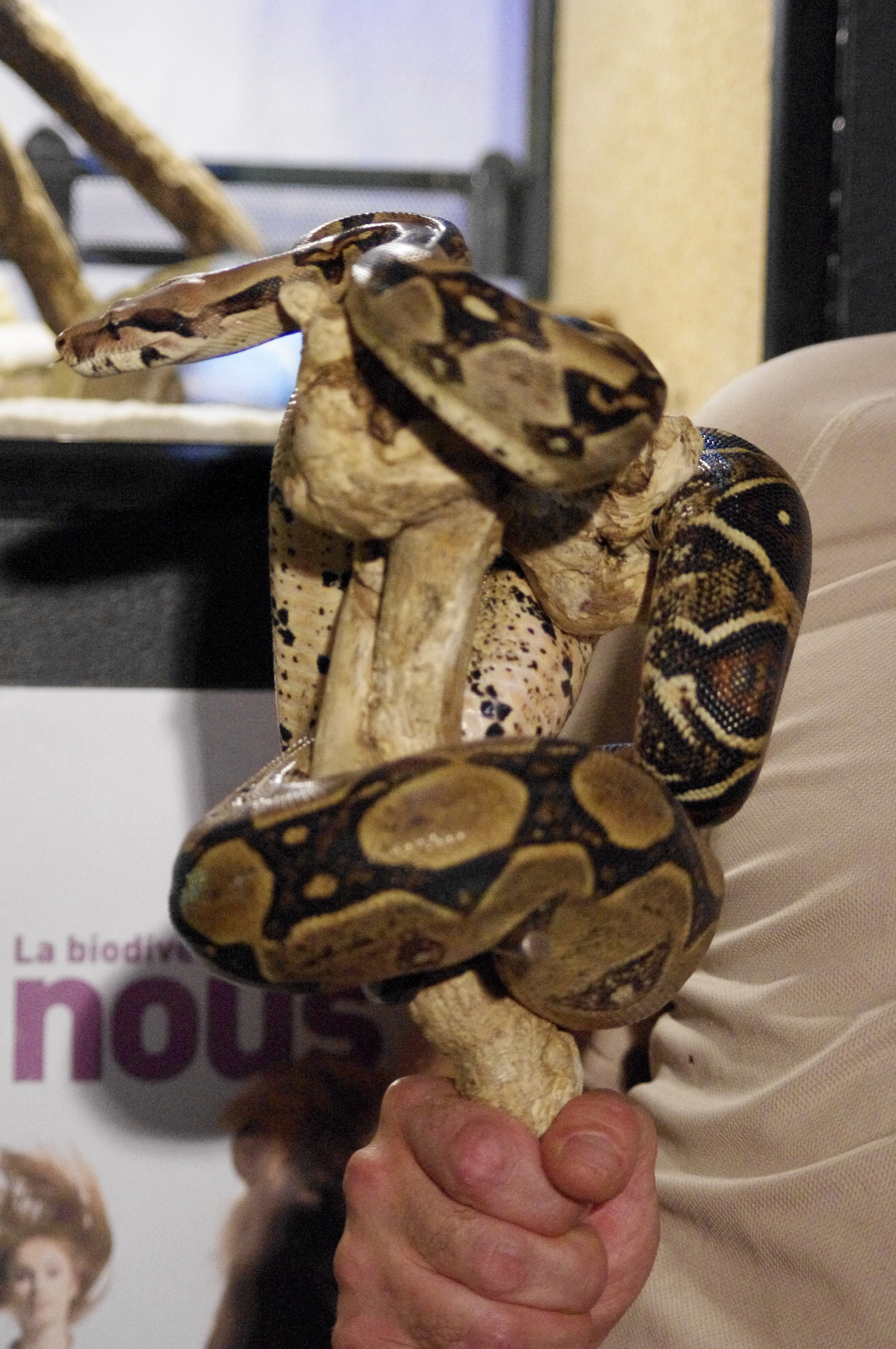 Reptiland, Martel, France.